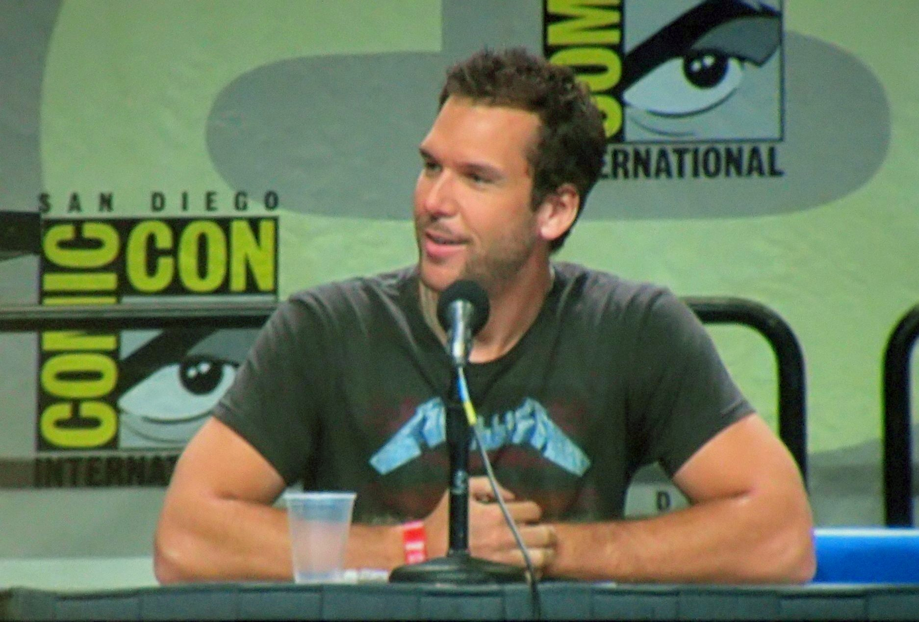 Dane Cook attending Comic Con 2007 promoting Good Luck Chuck.